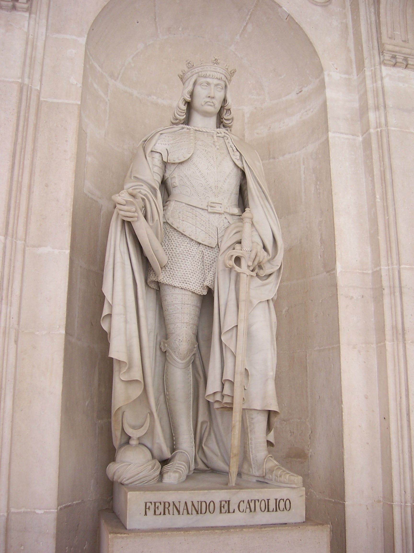 Ferdinand II,king of Aragon (Spain)